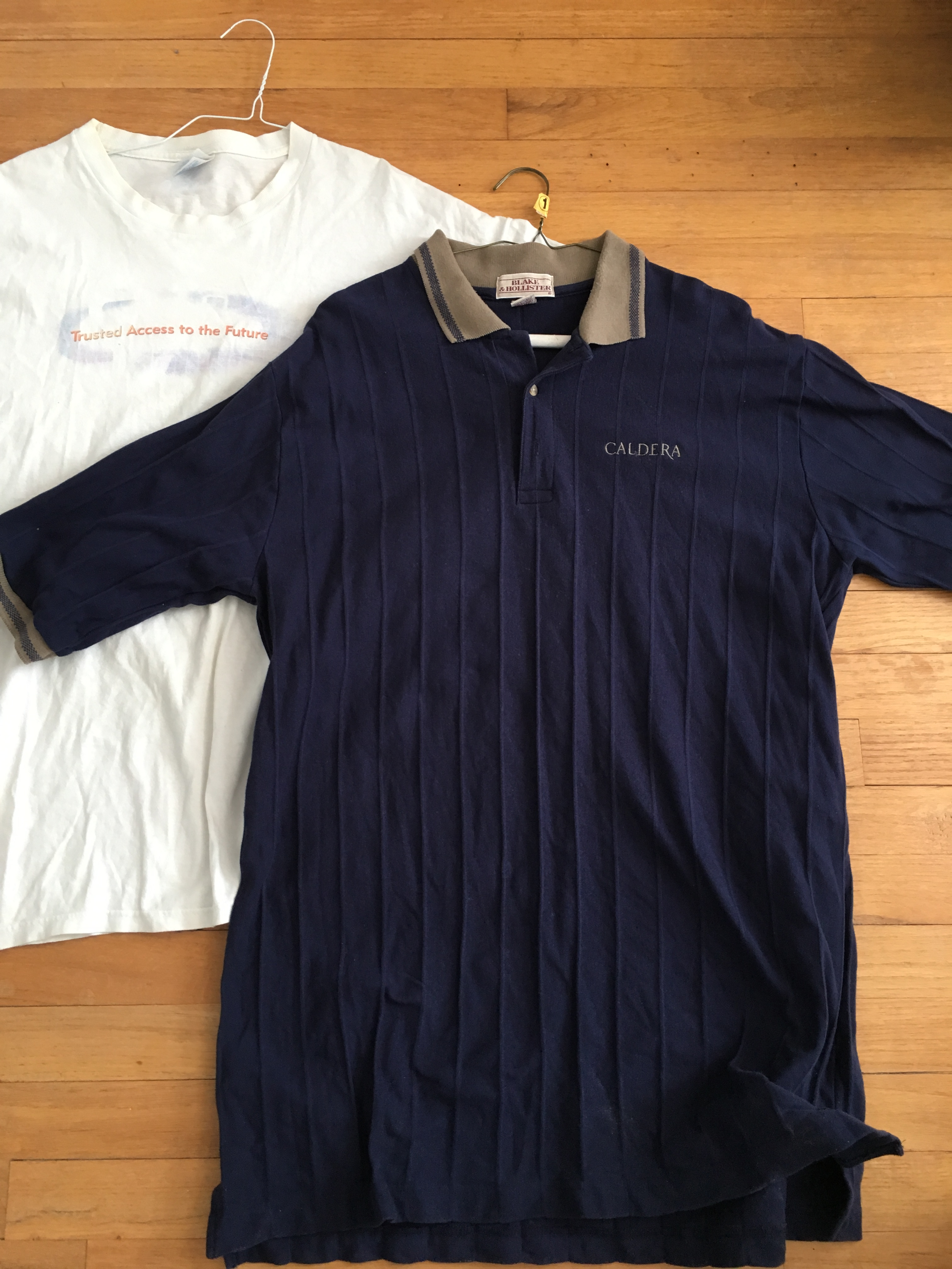 Two shirts from Caldera Systems, c. 2000–01. The dark blue polo shirt has no other writing on it beyond the name "Caldera". The white T-shirt has front side that says "Trusted Access to the Future" (a slogan that did not catch on). There is a reverse side that says "A3 for IT / Access to Source, Access to Internet, Access to Standards, Quality & Performance / Caldera / Linux for Business".